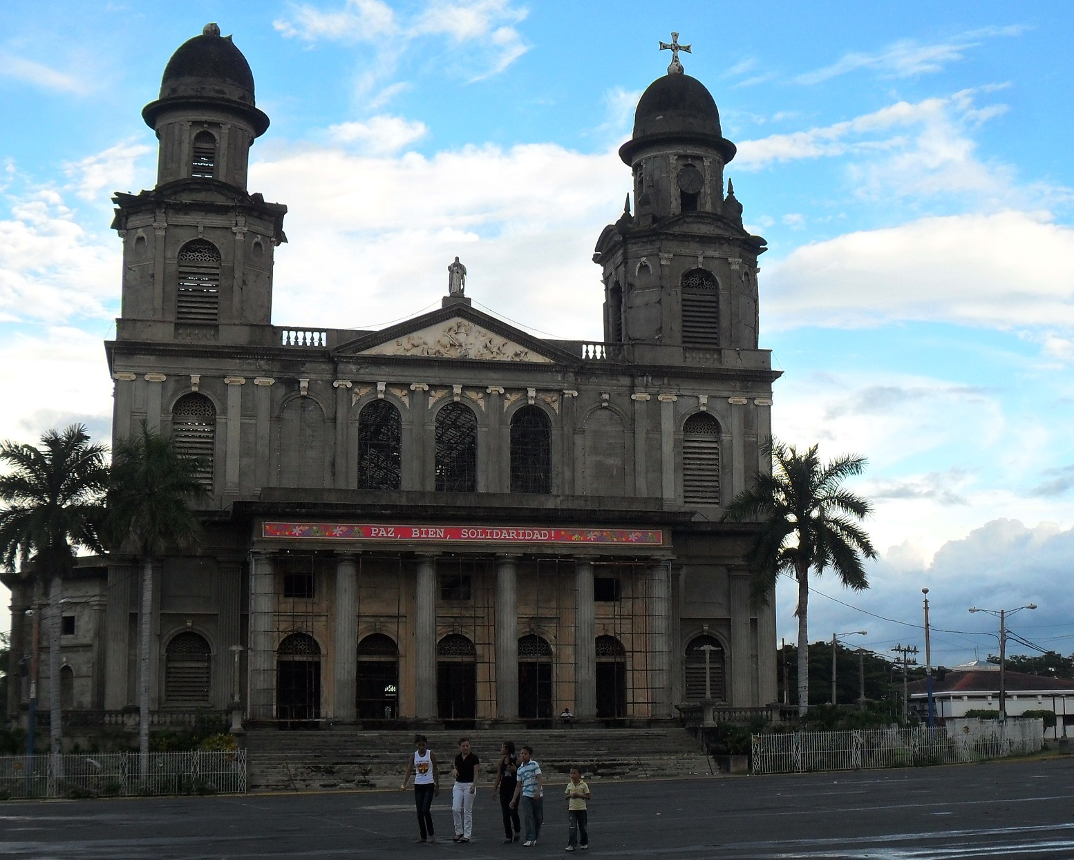 Catholic Church in Managua, Nicaragua